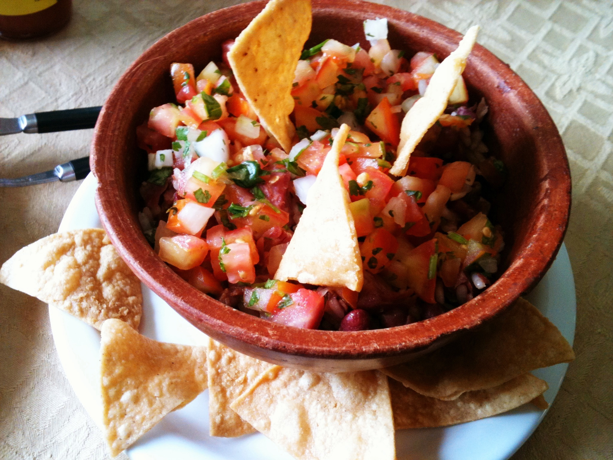 The chifrijo is a contemporary Costa Rican dish. Involves mixing beans, rice, pork, pico de gallo (tomato, lemon and spices), fried tortillas and spices.